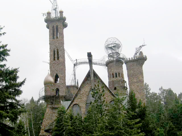 This is from a family trip to Bishops castle May 09. Personally owned copyright.